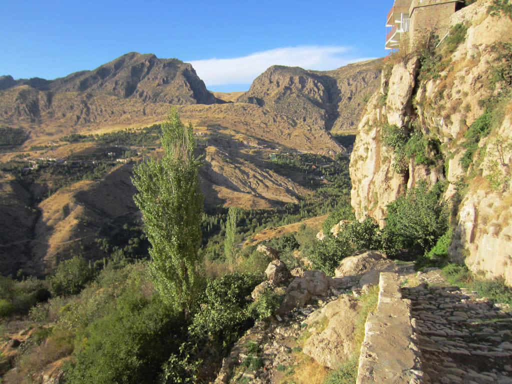 A lovely mountain view from Al Amadiya Citadel.